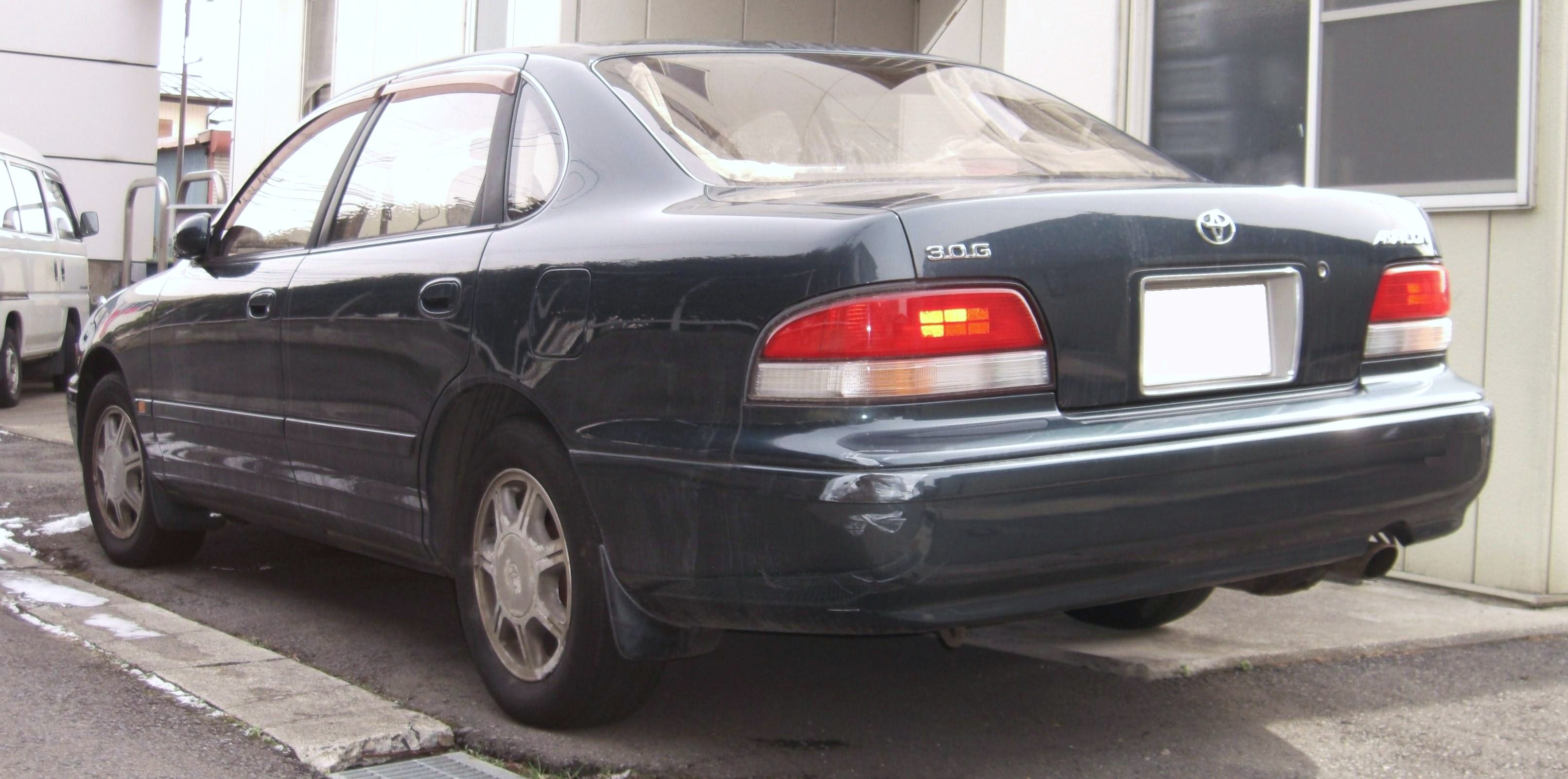 Toyota Avalon